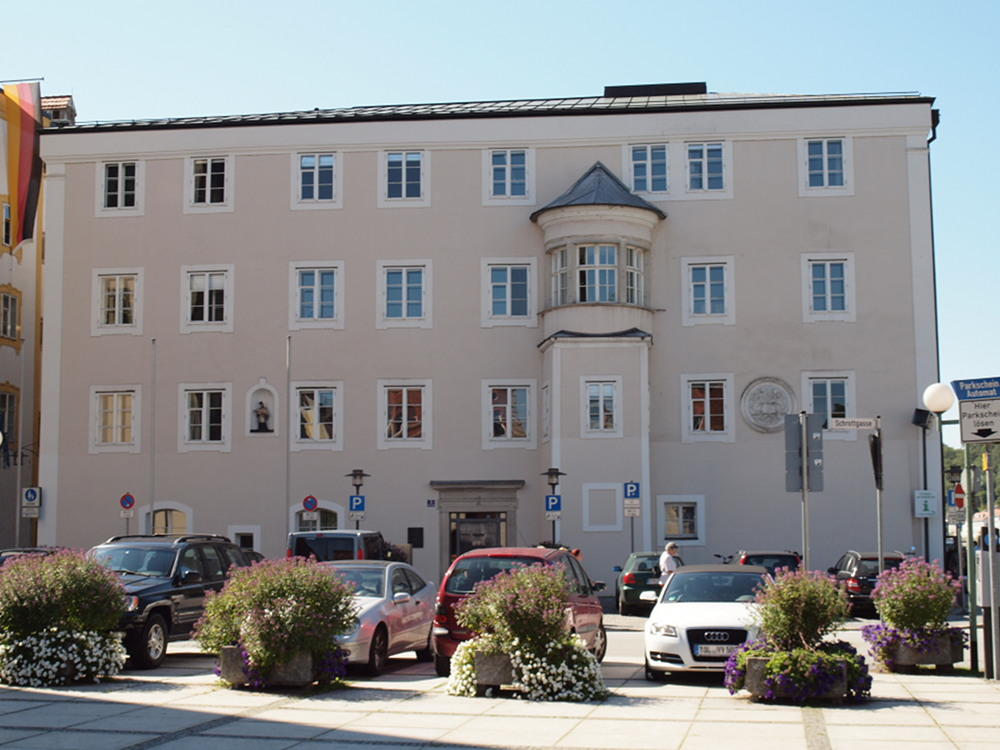 “Neues Rathaus” (New Townhall) in Passau, Germany